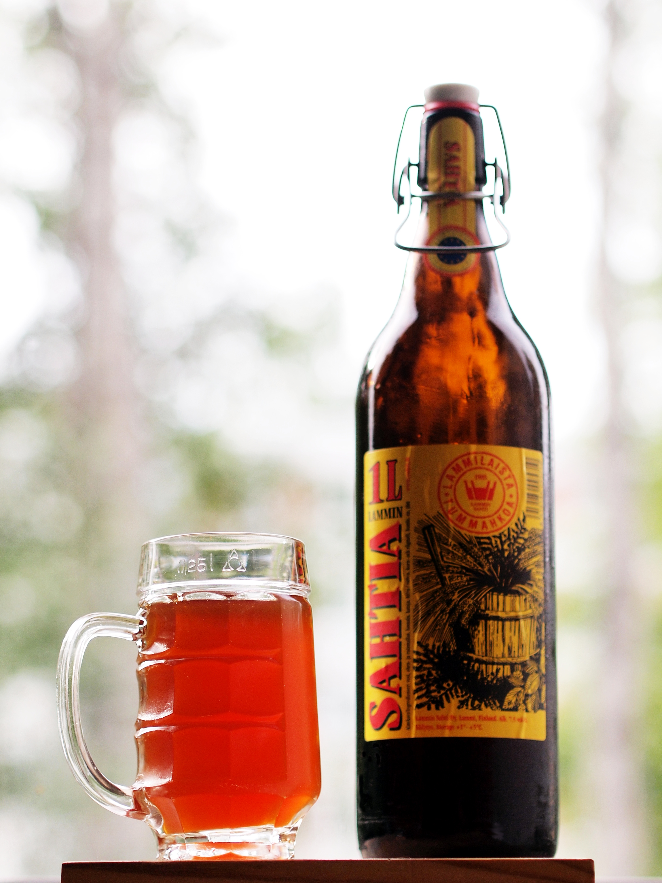 Half pint of sahti accompanied by a one-litre bottle of it. Brewed by Lammin Sahti Oy in Lammi, Finland.